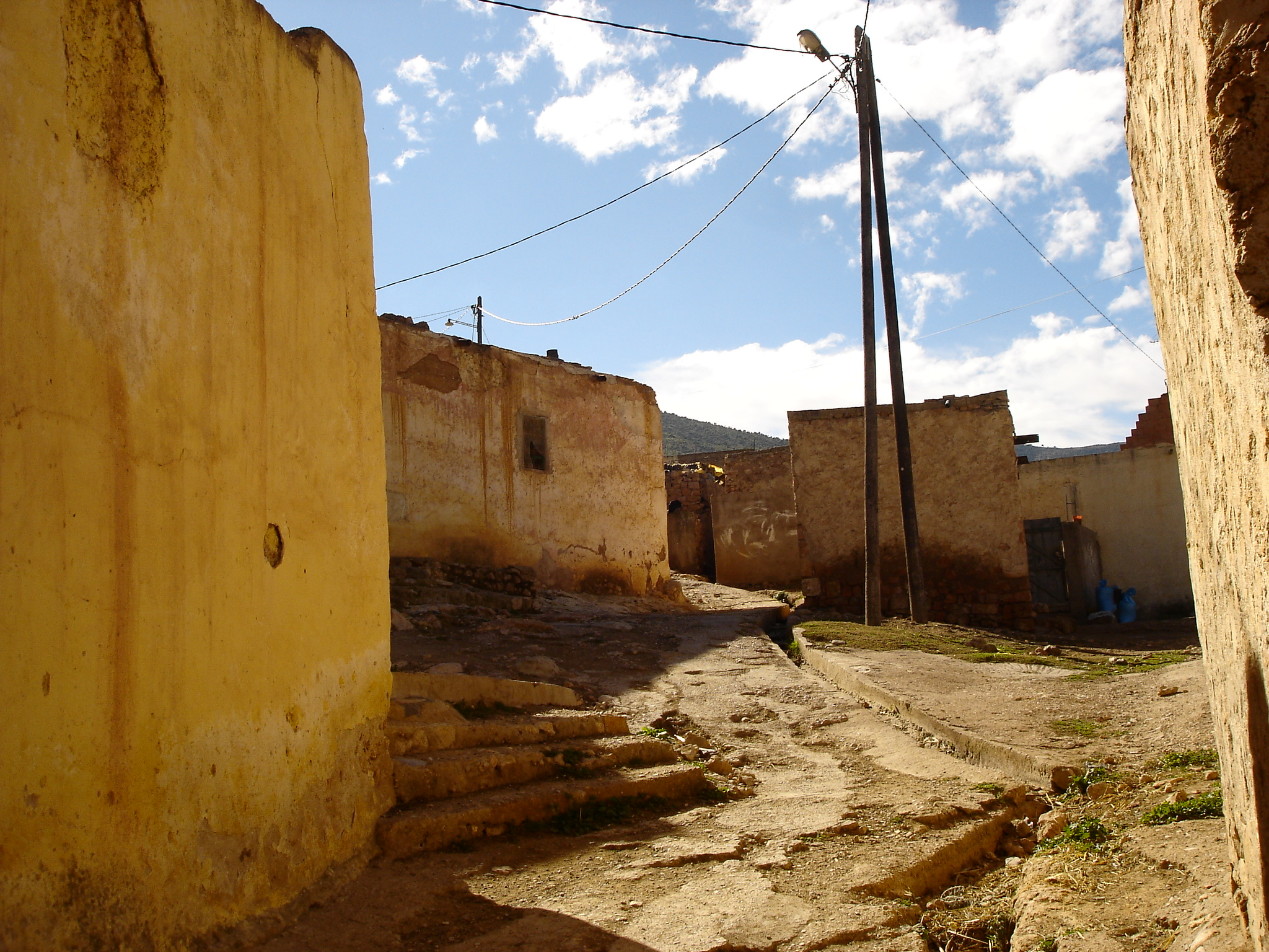 Typical street of district Kiadid in Debdou village, Morocco oriental.